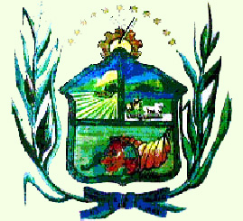 Coat the municipality of La Trinidad (Yaracuy),Venezuela